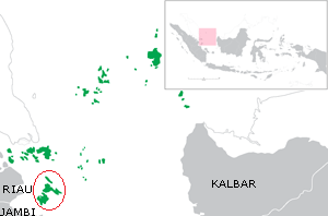 Made from Locator_Kepri_final.png which was under GNU license.